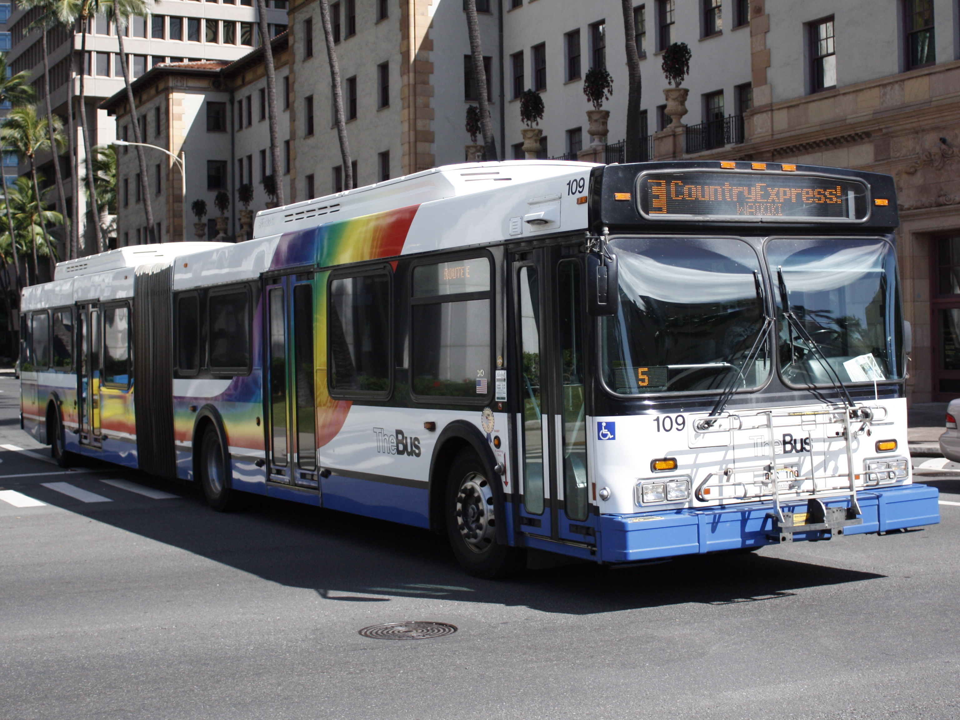 A TheBus New Flyer D60LF articulated bus crossing Nimitz Highway on Bishop Street in downtown Honolulu. This bus has since been repainted in the yellow/brown livery.